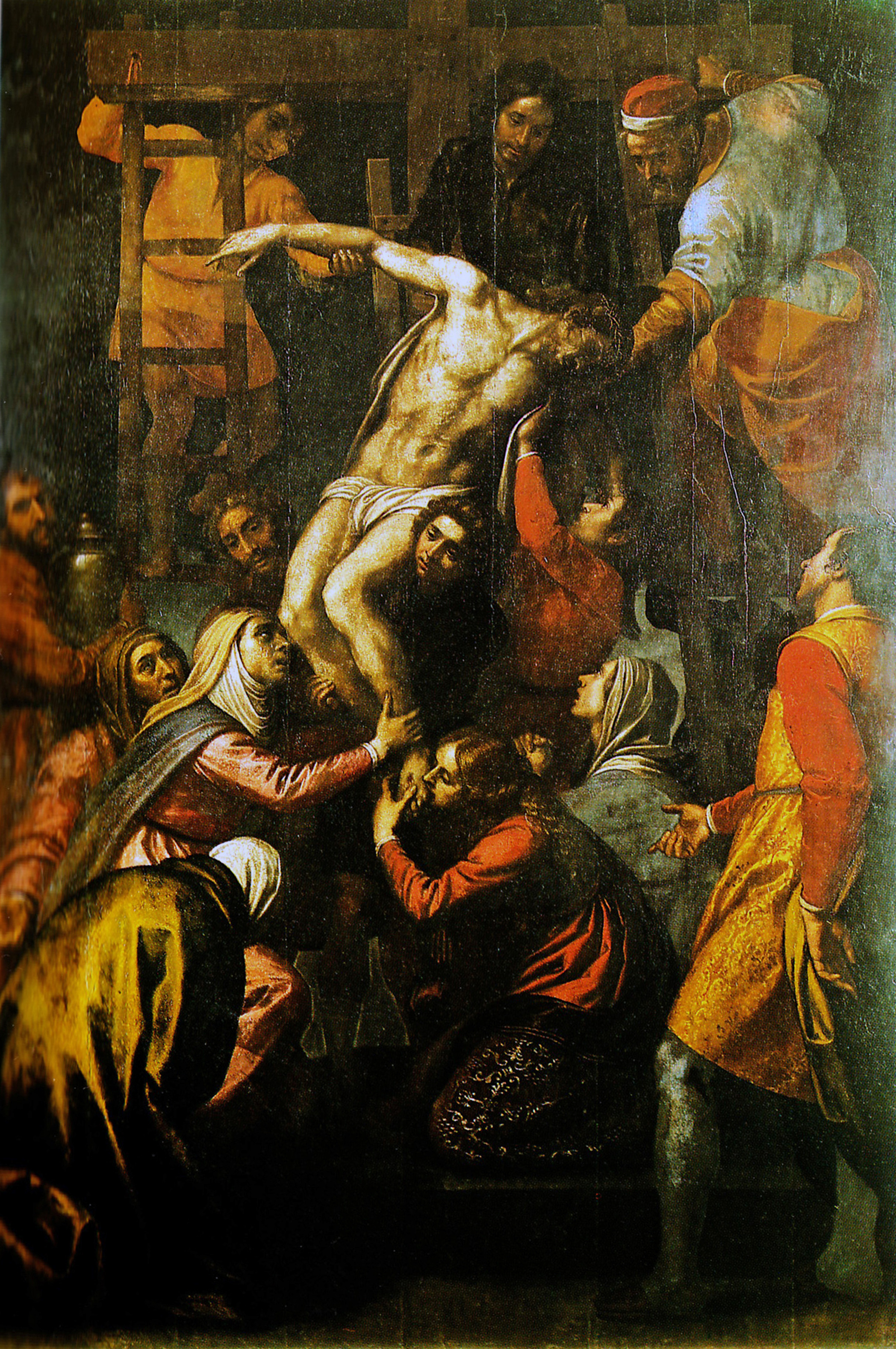 The Deposition